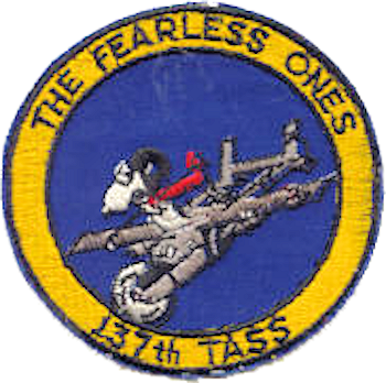 137th Tactical Air Support Squadron - Emblem